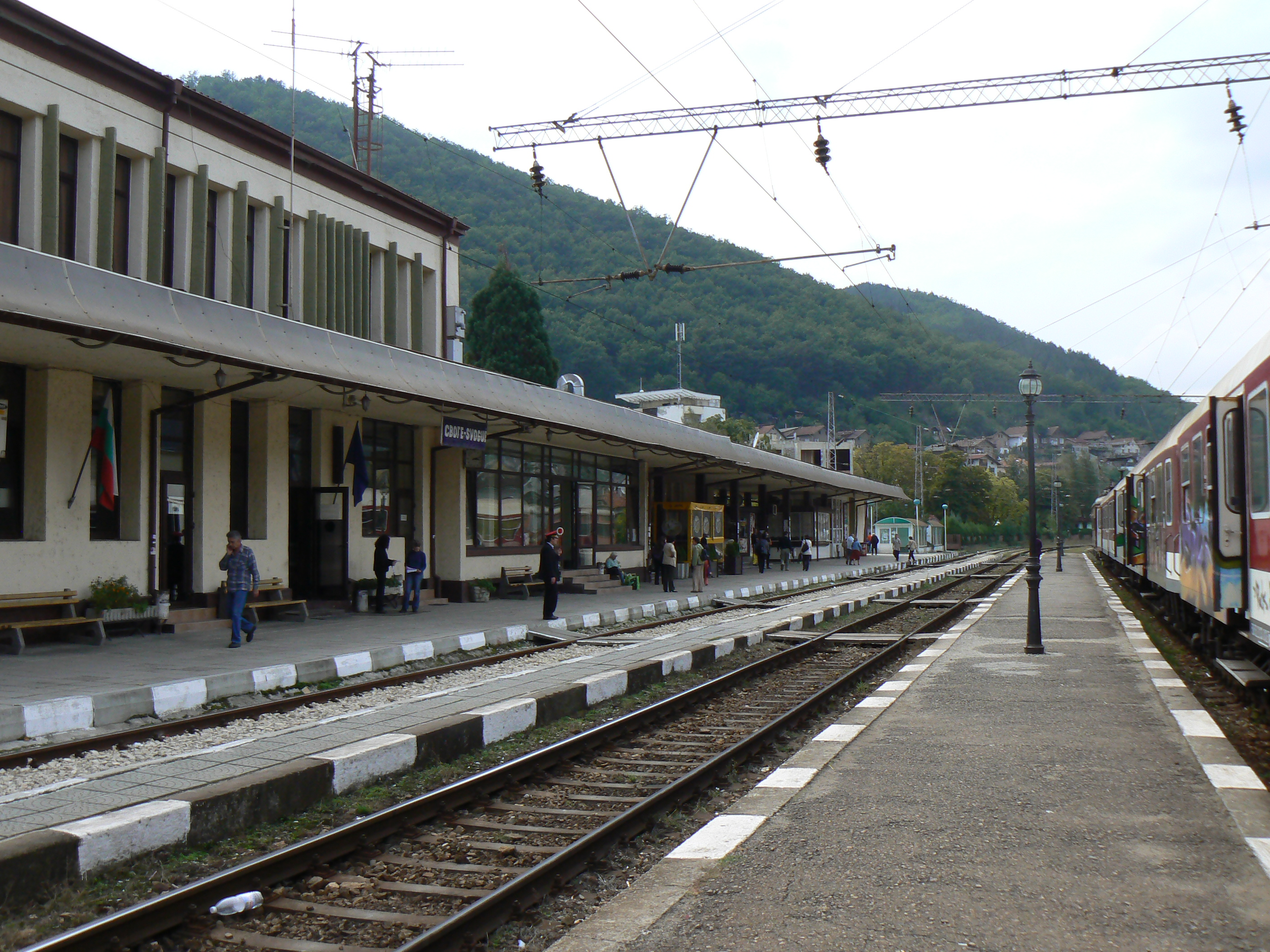 The railway station in Svoge, Bulgaria